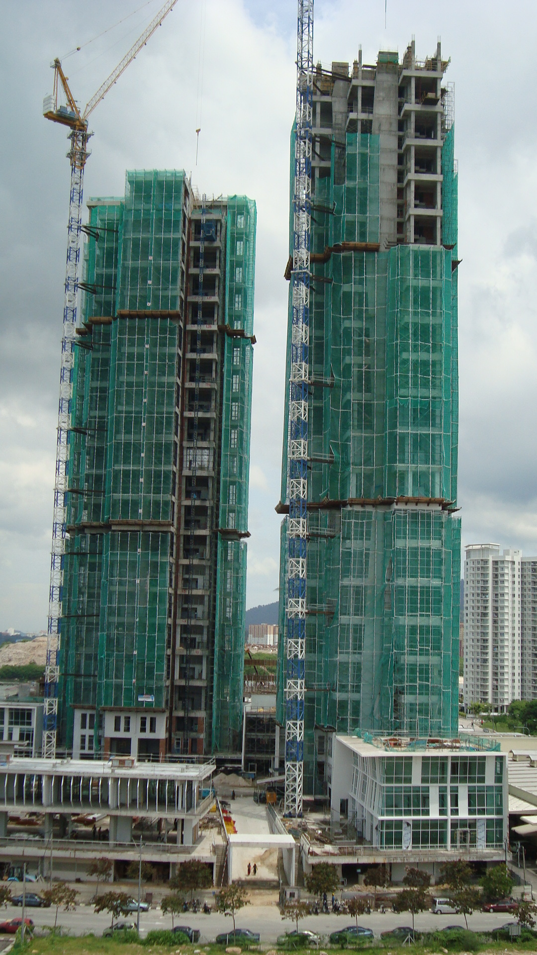 Two blocks of 36 & 40 storey towers under construction dated on the 2nd July 2013